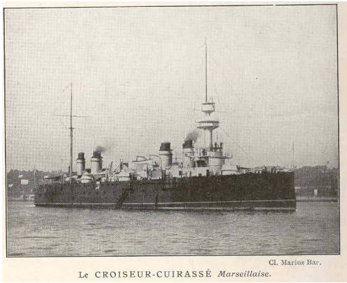 French armoured cruiser Marseillaise